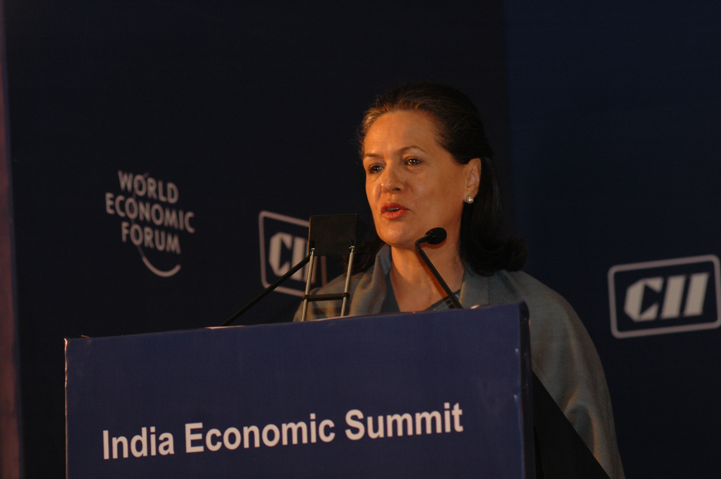 Sonia Gandhi, Chairperson, United Progressive Alliance and President, Indian National Congress speaking at the 'Meeting India's New Expectations' session at the World Economic Forum's India Economic Summit 2006 in New Delhi, 27 November 2006. Copyright World Economic Forum/Photo by Prabhas Roy